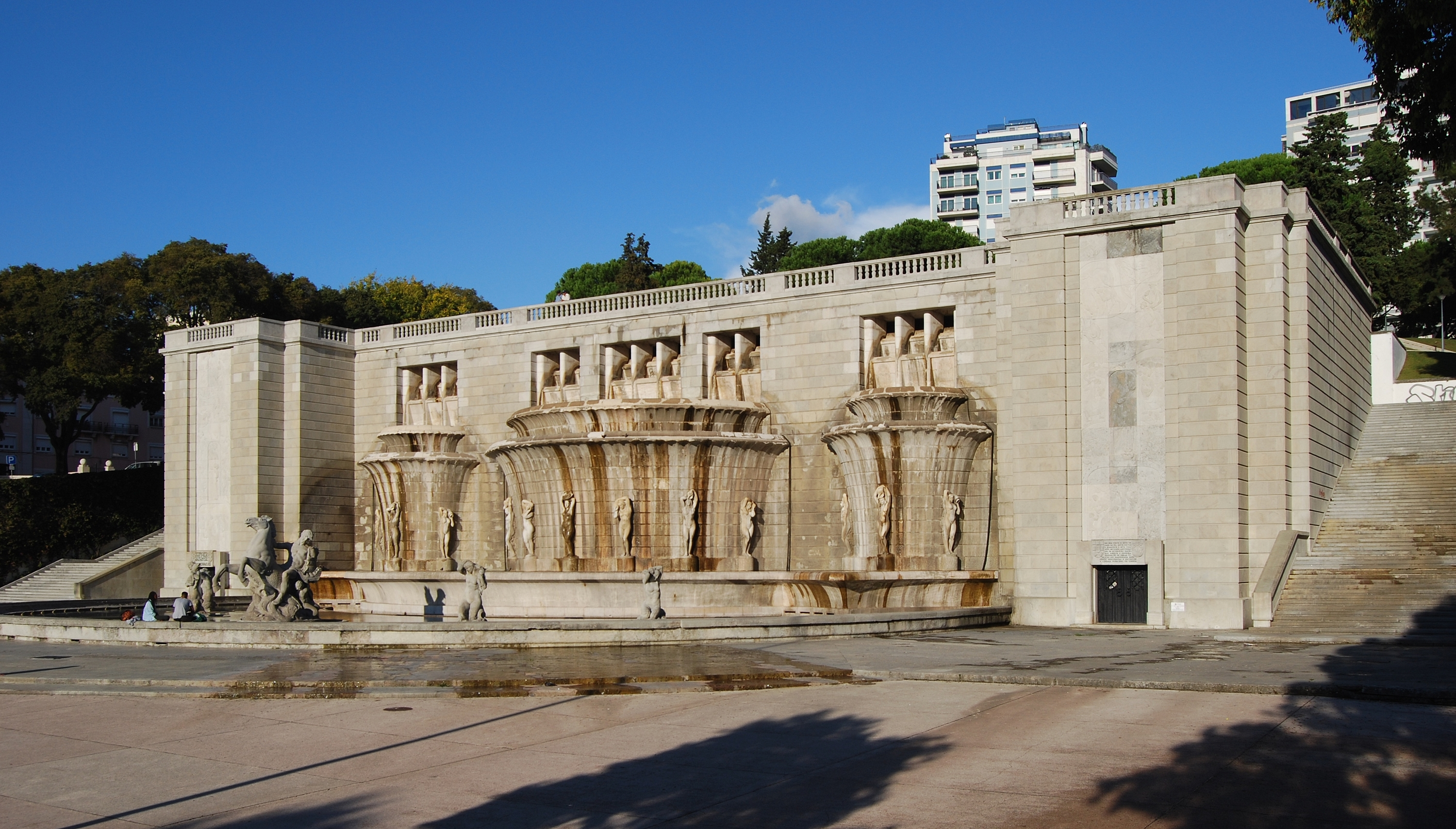 Fonte Luminosa, a monumental fountain in Lisbon.